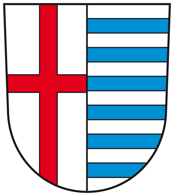 Coat of arms of Neumagen, Part of Neumagen-Dhron